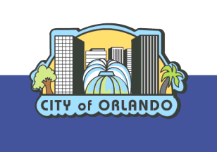 The flag was adopted by the Orlando City Council on June 2, 1980, the result of a design competition sponsored by the Orlando Kiwanis Club and the Council of Arts and Sciences. Prior to 1980, the city had no official flag. Despite its relatively brief history, the City of Orlando flag is well-traveled. The flag was flown into space aboard the shuttle Columbia in 1983 and again aboard the Discovery in 1985, logging a total of 278 earth orbits and more than 7 million miles. The City flag also accompanied retired U.S. Air Force Colonel Joe Kittinger on his historic solo transatlantic balloon flight in 1984.